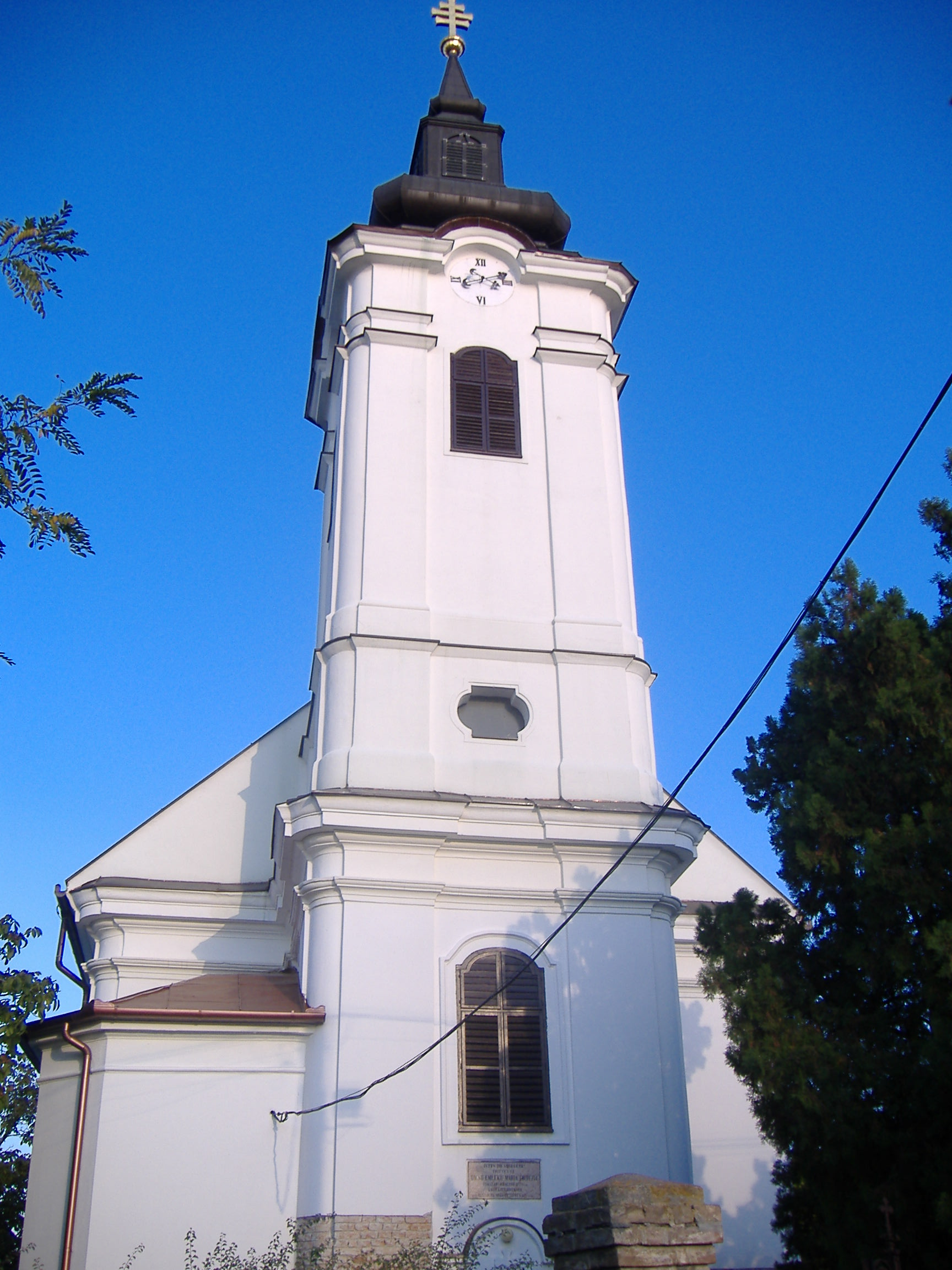 Greek catholic church in Makó, Hungary.